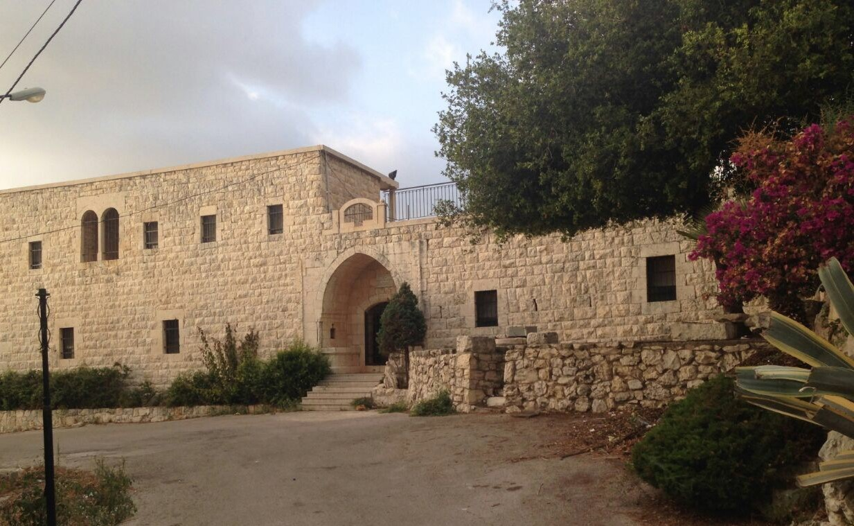 The Monastery of Saint Dometius (Dayr Mar Dumit) in the village of al-Bouar, a conditional waqf by the al-Dahdah family to the Maronite Church.